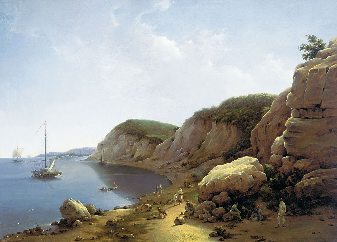 Grigory Chernetsov, A view of Syuykey Mountains on the Volga, in Kazan Governorate, oil on canvas, 1840